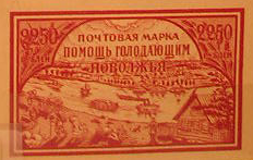 RSFSR stamp, 1921 Pomgol issue (Michel #167y, Scott #B15a, 2250 roubles)